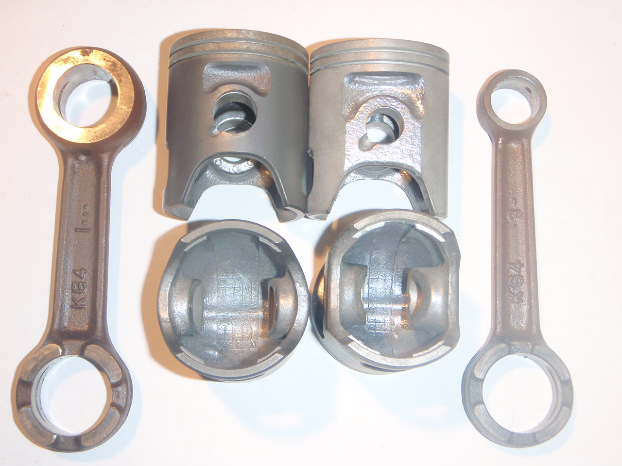 The 2 types of piston and conrod used in the Honda MVX250F motorcycle